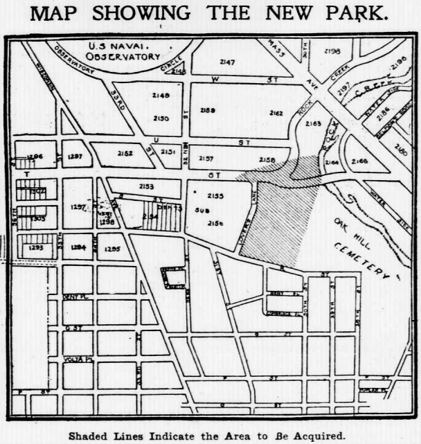 A map of Georgetown Heights prior to the creation of Dumbarton Oaks Park, Dumbarton Oaks Gardens and Montrose Park, showing the proposed location of Montrose Park. From the Evening Star, 29 March 1908, Chronicling America: Historic American Newspapers. Library of Congress.